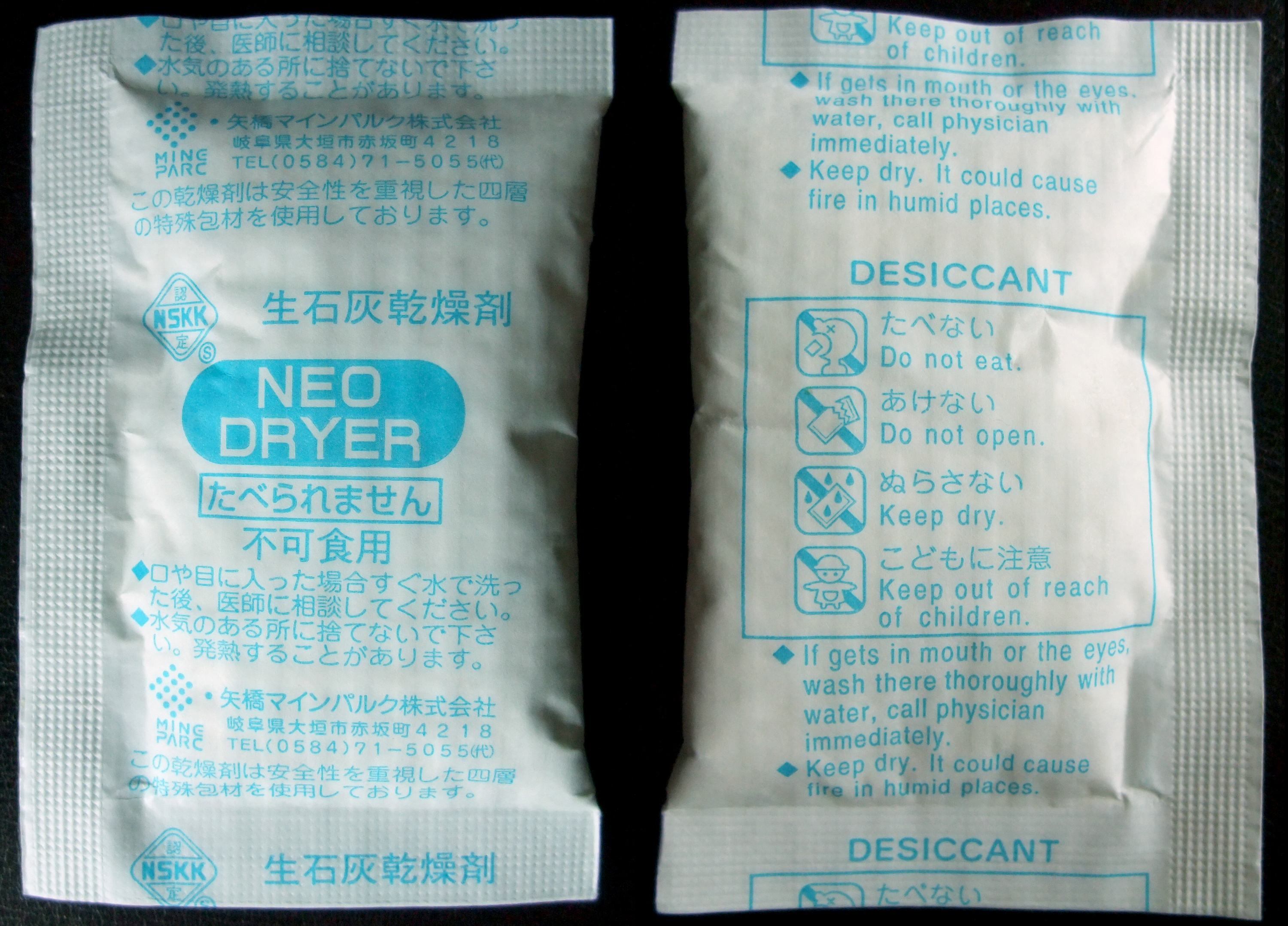 Calcium oxide (quicklime) pre-packaged desiccants